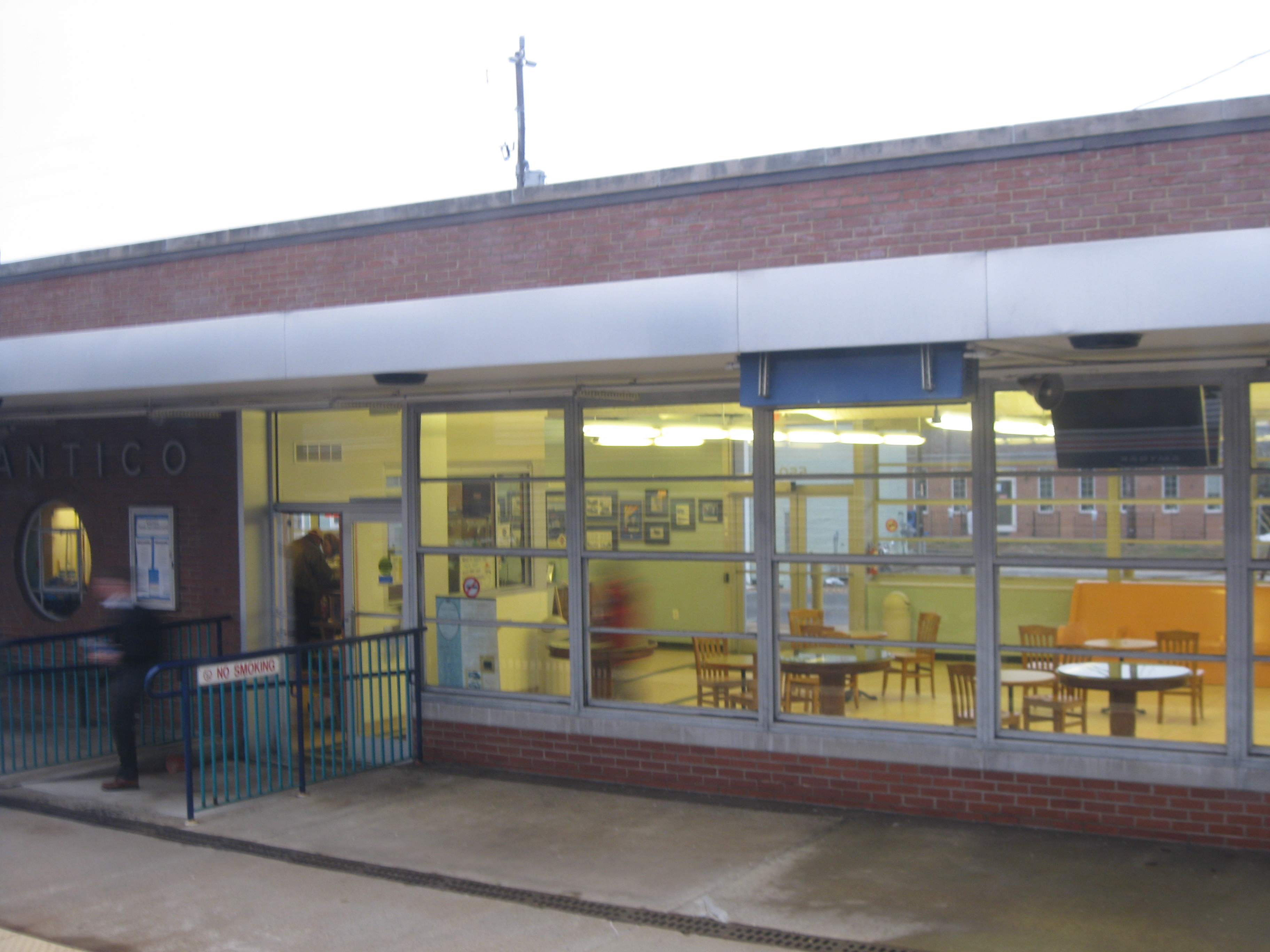 Quantico train Station in Virginia. Both Amtrak and the Virginia Railway Express stop here.